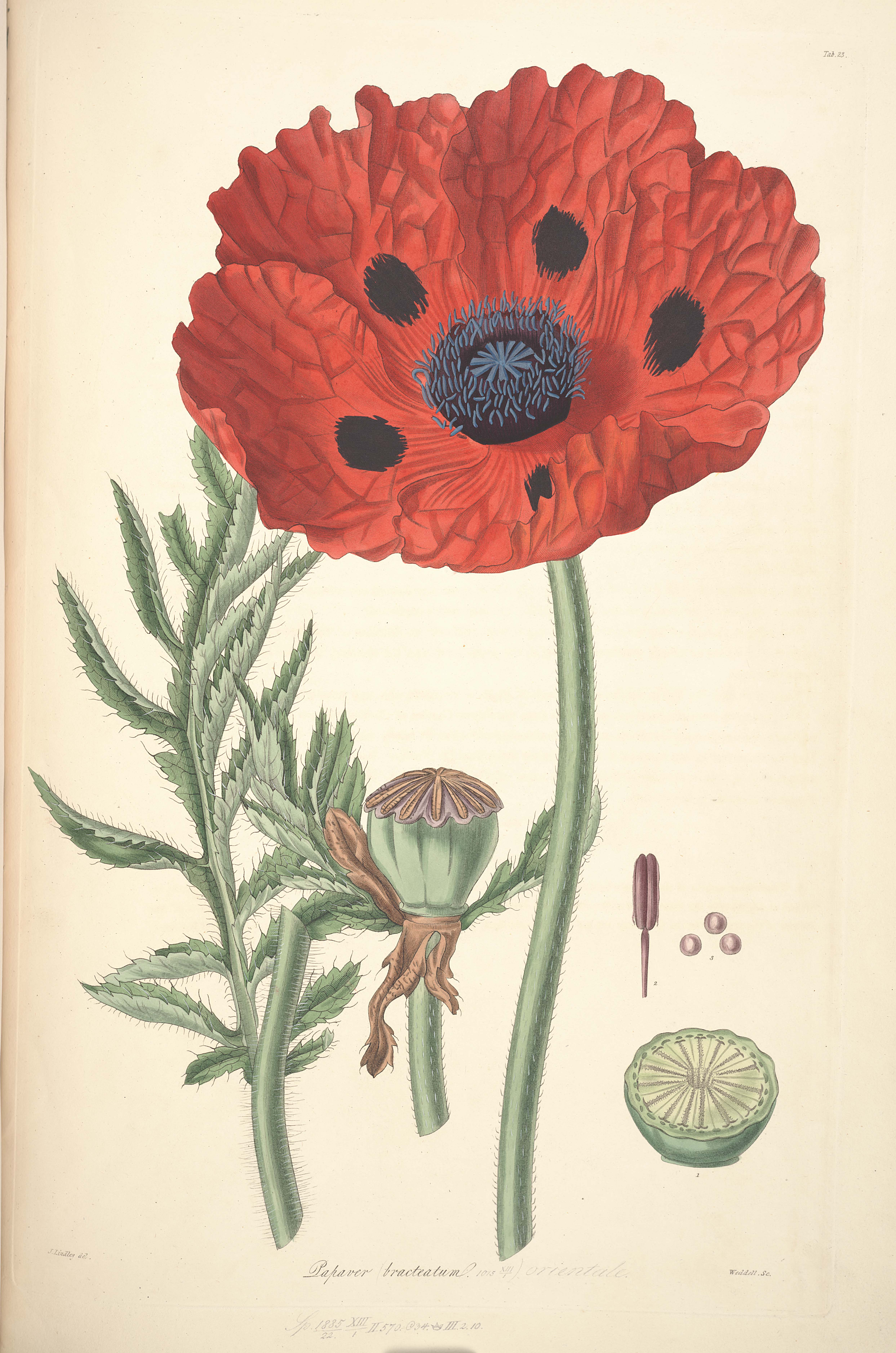 Papaver bracteatum